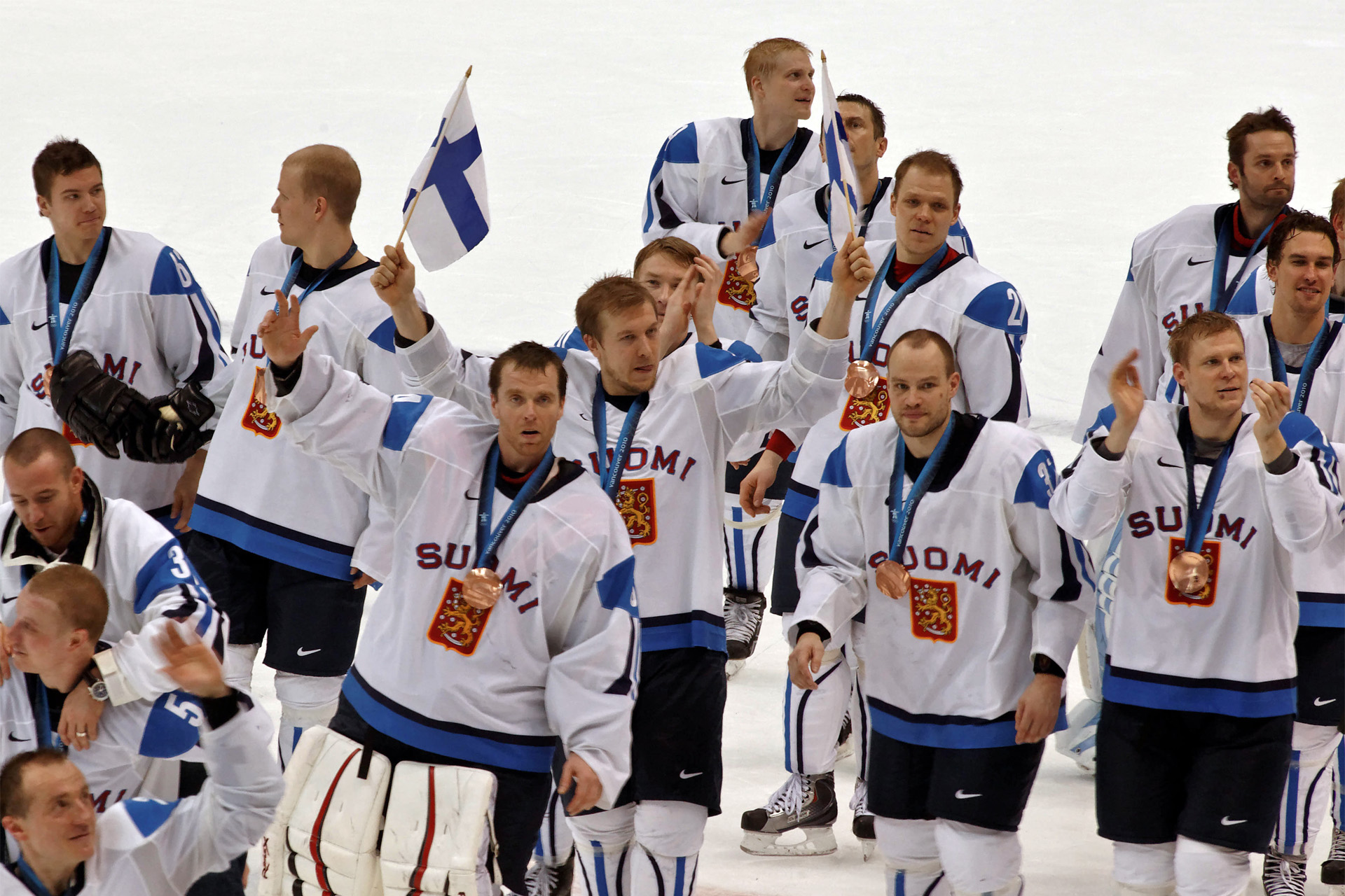 Finland ice hockey team skate around the arena after winning the bronze medal over Slovakia at the 2010 Winter Olympics